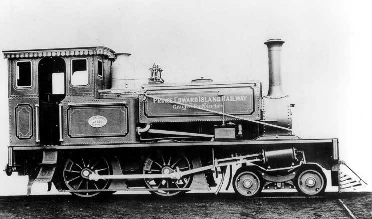 Typical of the narrow-gauge engines that served the Prince Edward Island Railway, Engine Number 1 was a compact machine with a 4-4-0 layout. These engines proved unsuccessful in mainline use, having been designed primarily for switching and yard use.